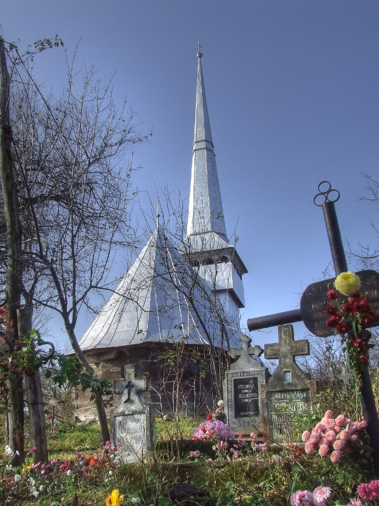 Wooden church in Așchileu Mare, Cluj County, Romania